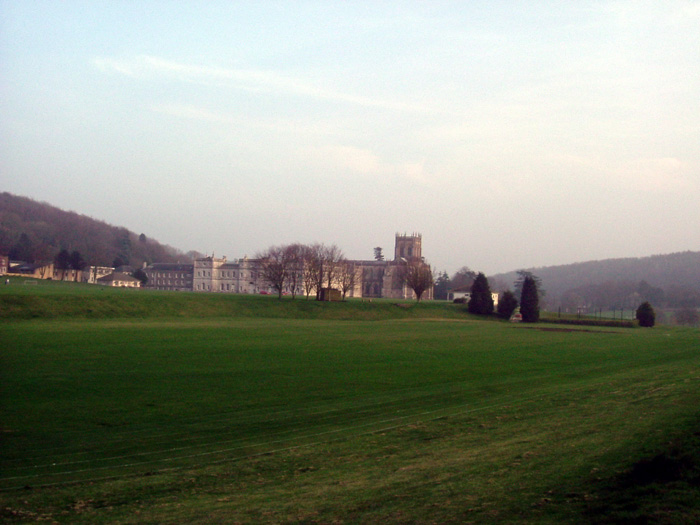 Milton Abbey, Dorset, taken by Joe D in March 2005